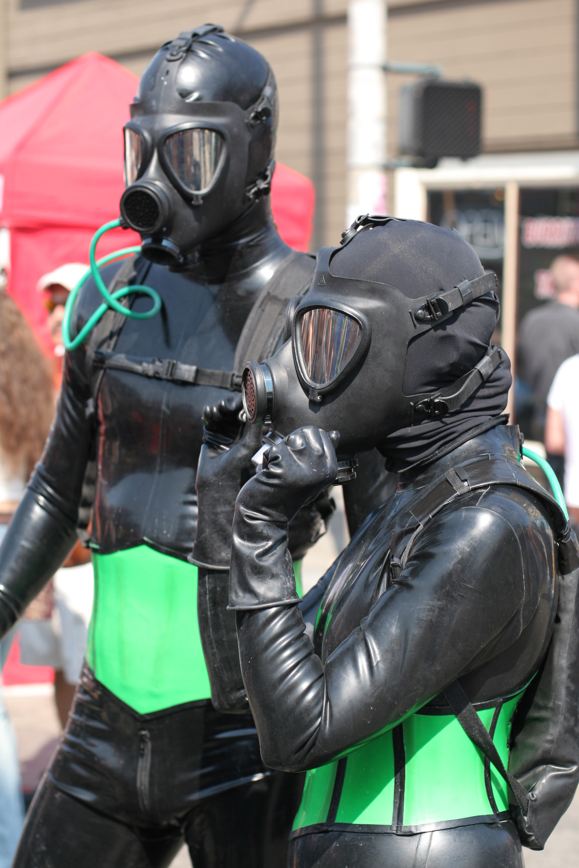 A couple wears rubber outfits and gas masks during the 2006 Folsom Street Fair.